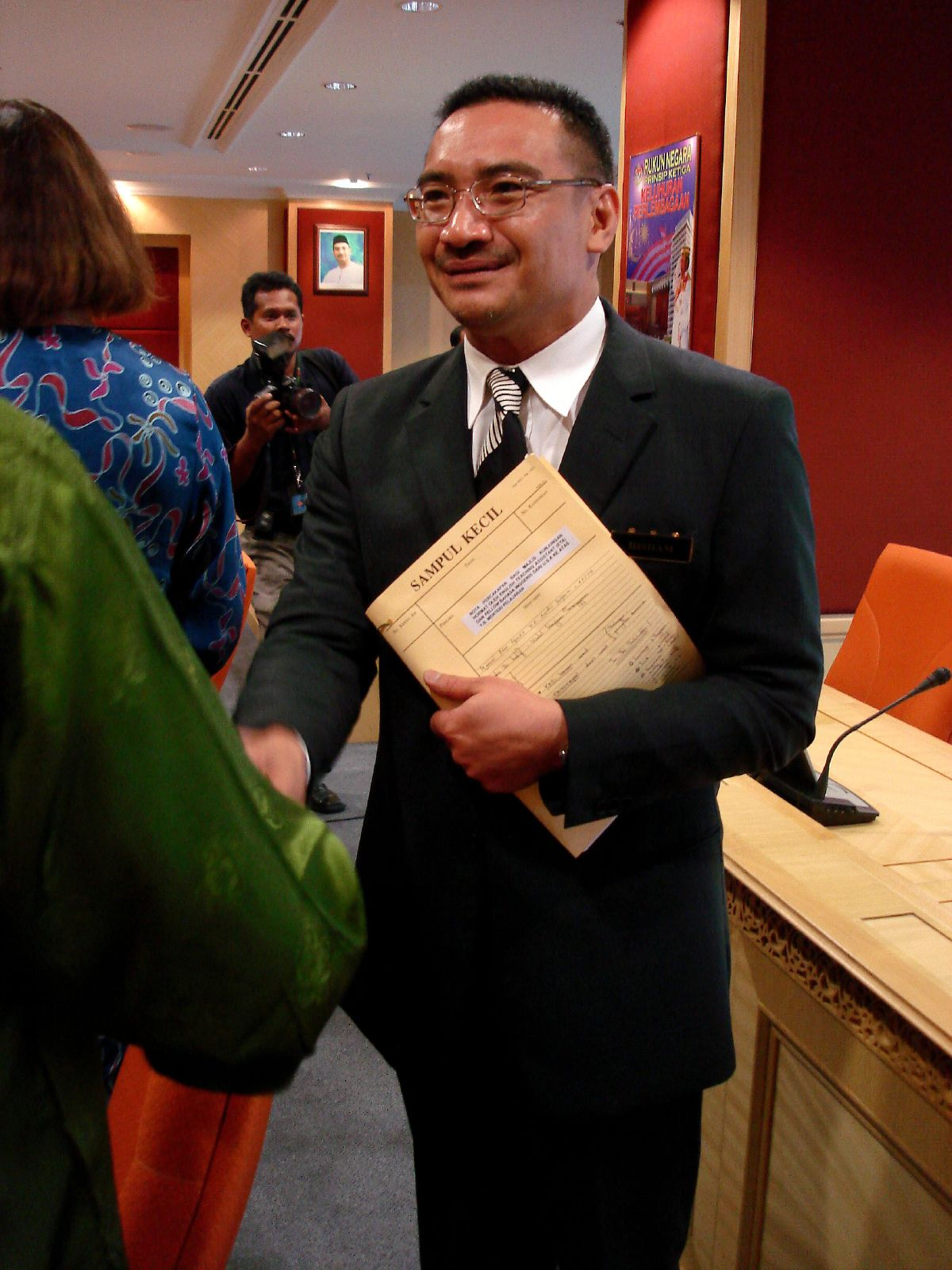 Hishammuddin Hussein, Malaysian Minister for Education.